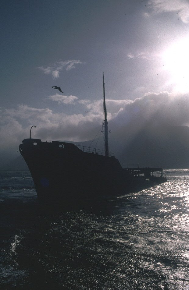 The Inverlane block ship before she finally disappeared below the water in 1996